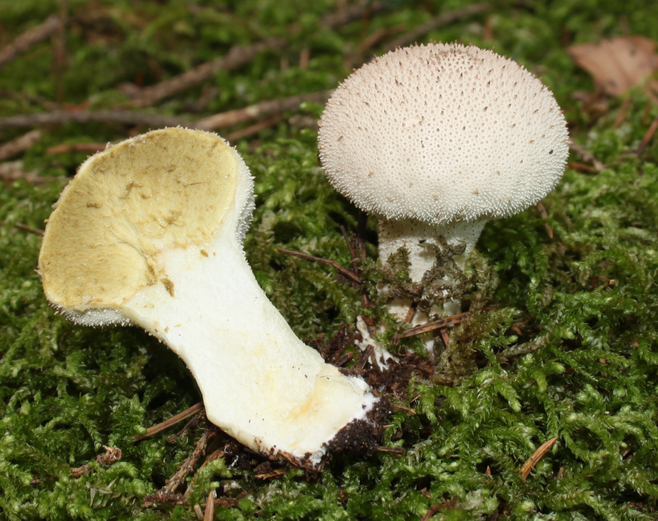 Lycoperdon perlatum, common puffball, gem-studded puffball, devil's snuff-box, location: Southern Germany, Baden-Württemberg, Ulm, coniferous forest